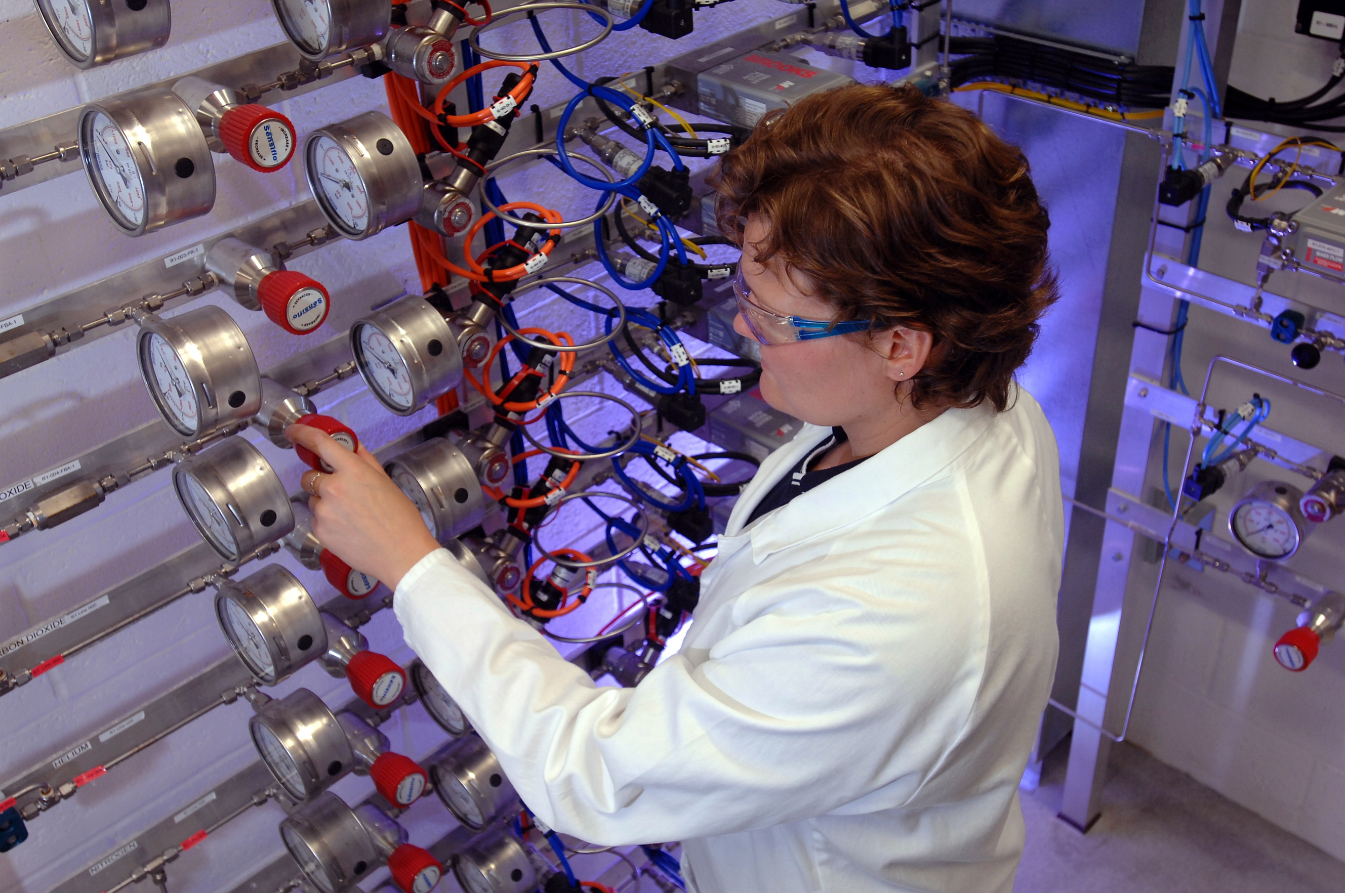 Dr Sage is working as a Research Scientist in the Gas Processing and Conversion group. Her research focus is on Gas-to-Liquid (GTL) technologies and she currently leads the Modified Fischer-Tropsch Process for Synfuels project, within the Energy Transformed National Research Flagship. Natural gas can be cooled to form Liquefied Natural Gas (LNG) or chemically converted to transport fuels such as gasoline and diesel, and chemicals. Processes that convert natural gas to liquid fuels are known as Gas-to-Liquids or GTL processes. CSIRO's Gas Processing and Conversion research program is developing technologies to more cost effectively develop cleaner fuels and chemical processes using Australia's abundant natural gas resources. These GTL technologies provide the nation's energy sector with the opportunity to fully utilise Australia's hydrocarbon resources, enhancing our sustainability and security in energy whilst helping to reduce greenhouse gas emissions.